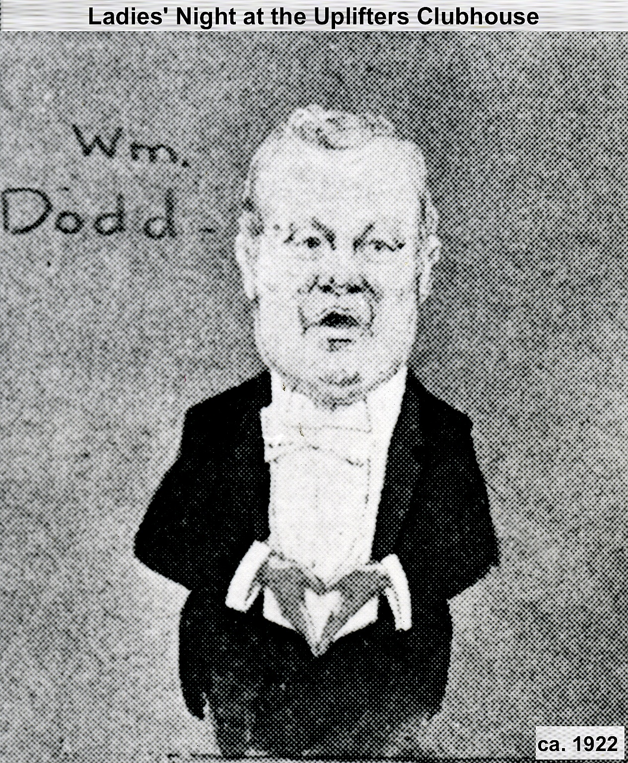 This is a cut out from a cartoon by an unknown artist found in the 1922 yearbook of the Uplifters Club, Los Angeles CA. The file shows architect W.J.Dodd performing a song for a Ladies' Night event at the Club. William J. Dodd The Uplifters Club yearbook can be found in the UCLA Charles Young Research Library, Special Collections.